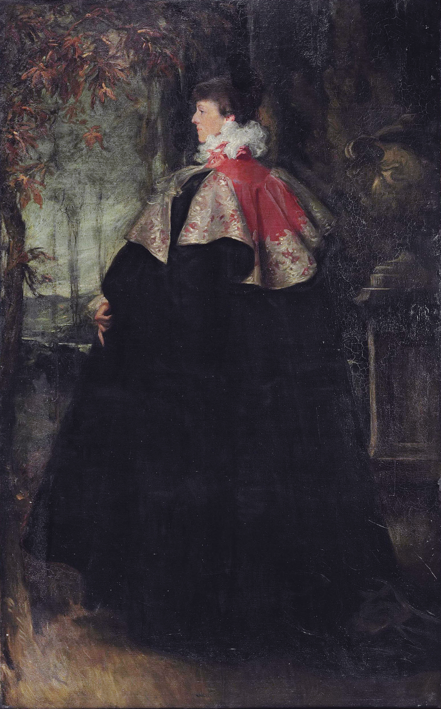 Jean Miller Hamilton (nee Muir), wife of General Ian Montieth Hamilton (1853-1947) oil on canvas 268 x 155 cm